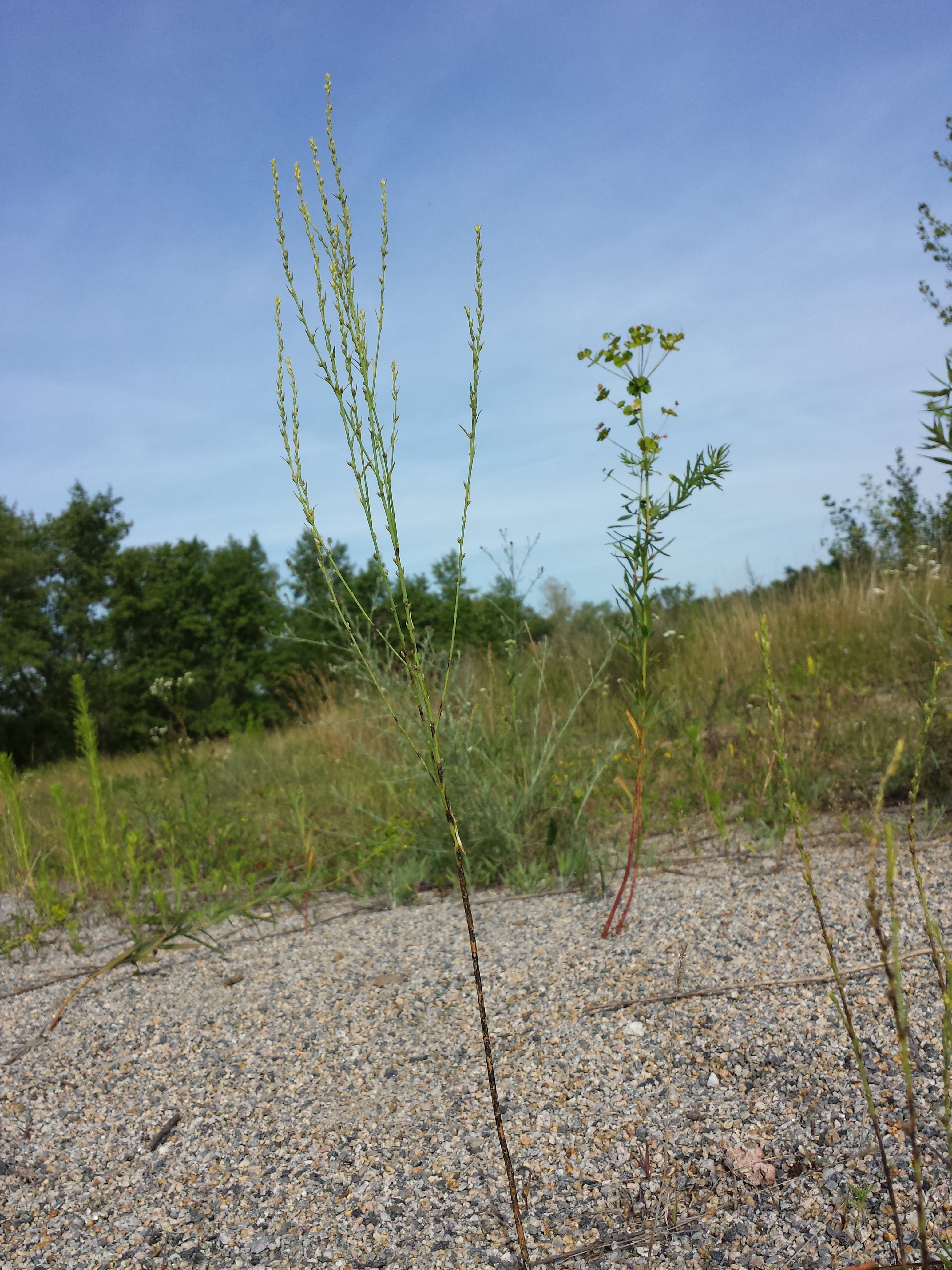 Habitus Taxon: Thymelaea passerina (sensu Fischer et al. EfÖLS 2008 ISBN 978-3-85474-187-9) Location: abandoned marshalling-yard Breitenlee, Vienna-Donaustadt - ca. 160 m a.s.l. Habitat: dry grassland